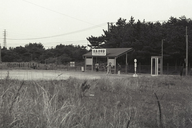 Kashima Seaside Railway Kashima-Konan Station